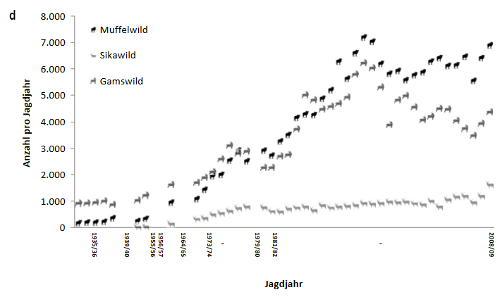 Annual hunting bag / hunting statistics of ungulates (Ovis aries musimon, Cervus nippon and Rupicapra rupicapra)in Germany between 1935 and 2009